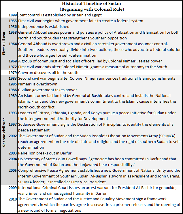 Sudan Timeline